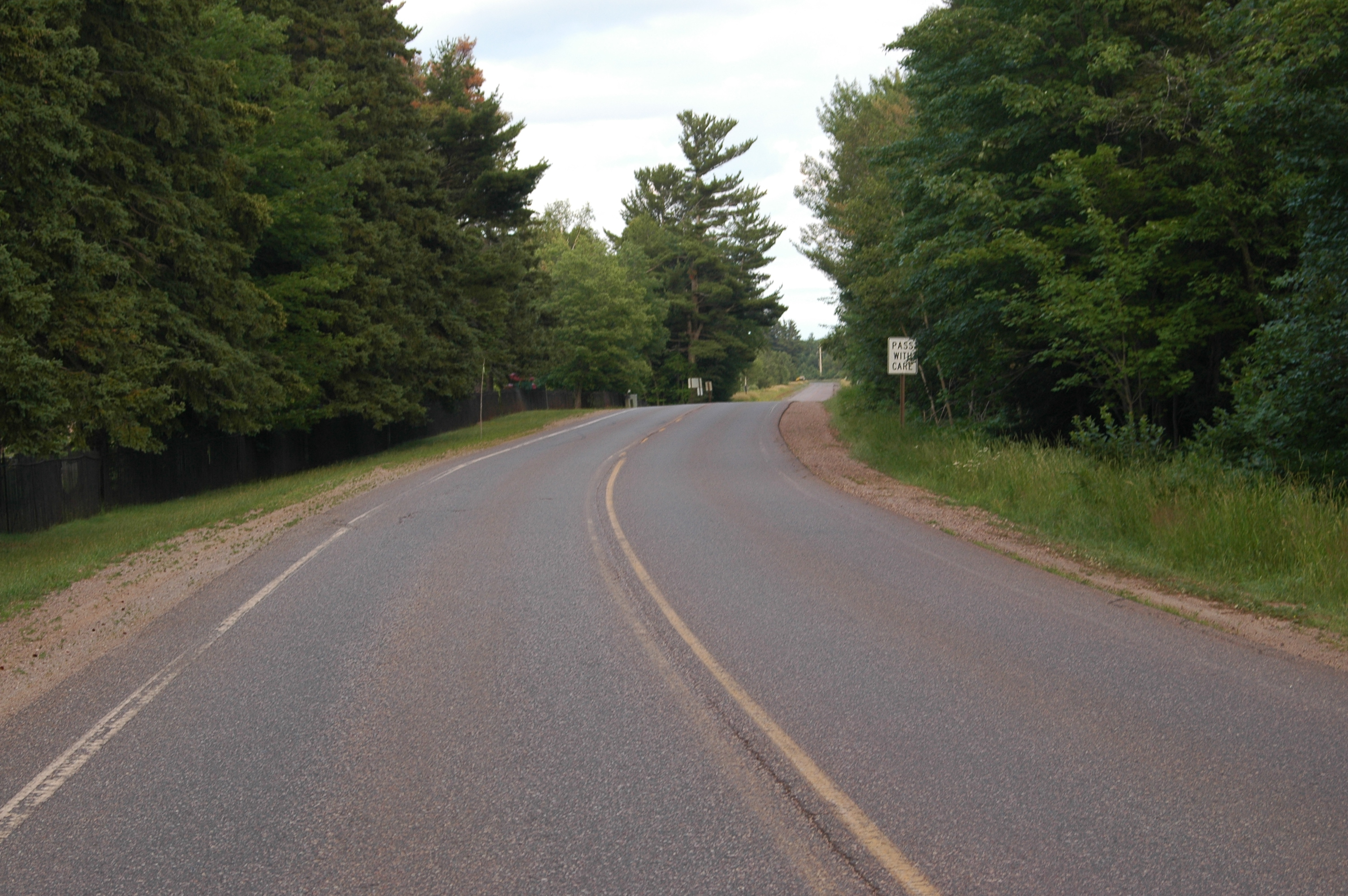 County Road 492 near the front gates of the Negaunee City Cemetery